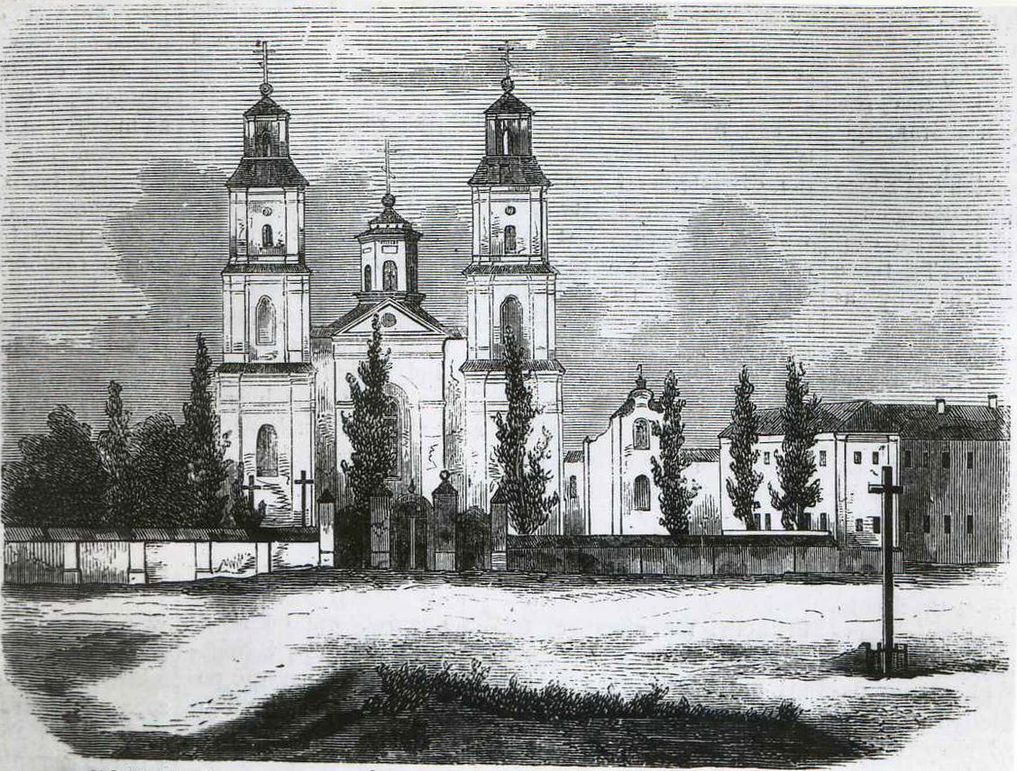 Non existent Uniat Church in Bycień, Belarus